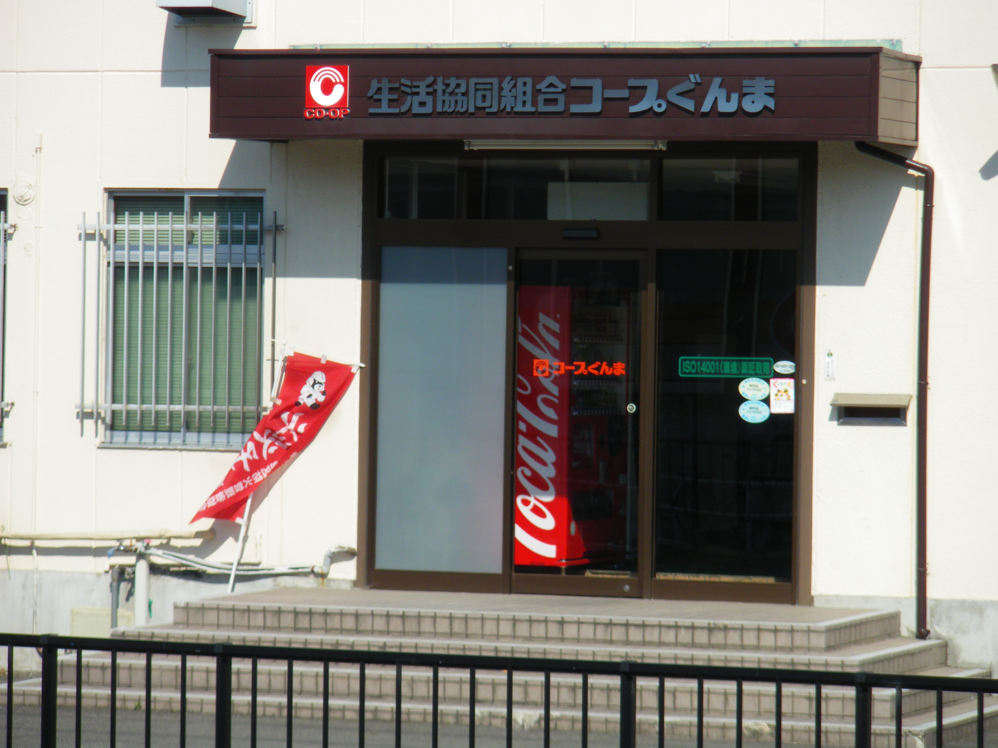 The entrance2 of 'Coop-Gunma'